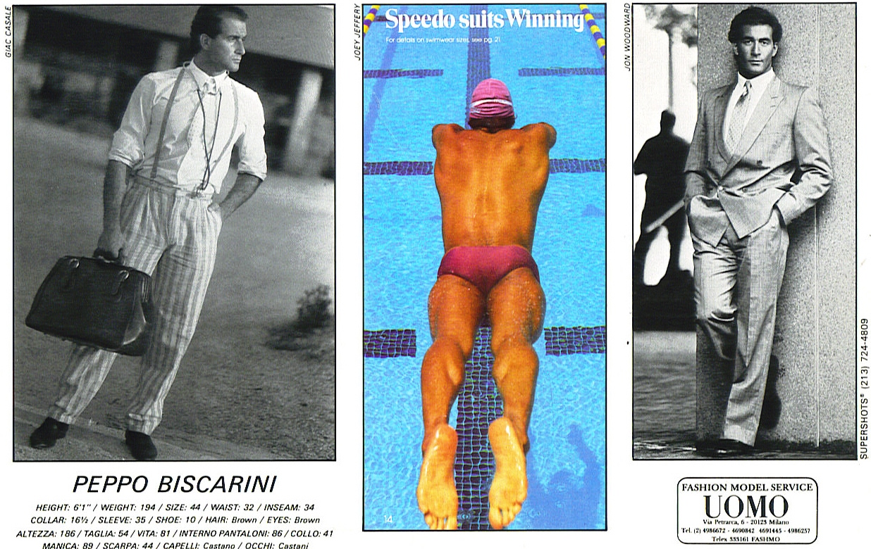 Peppo's zed card